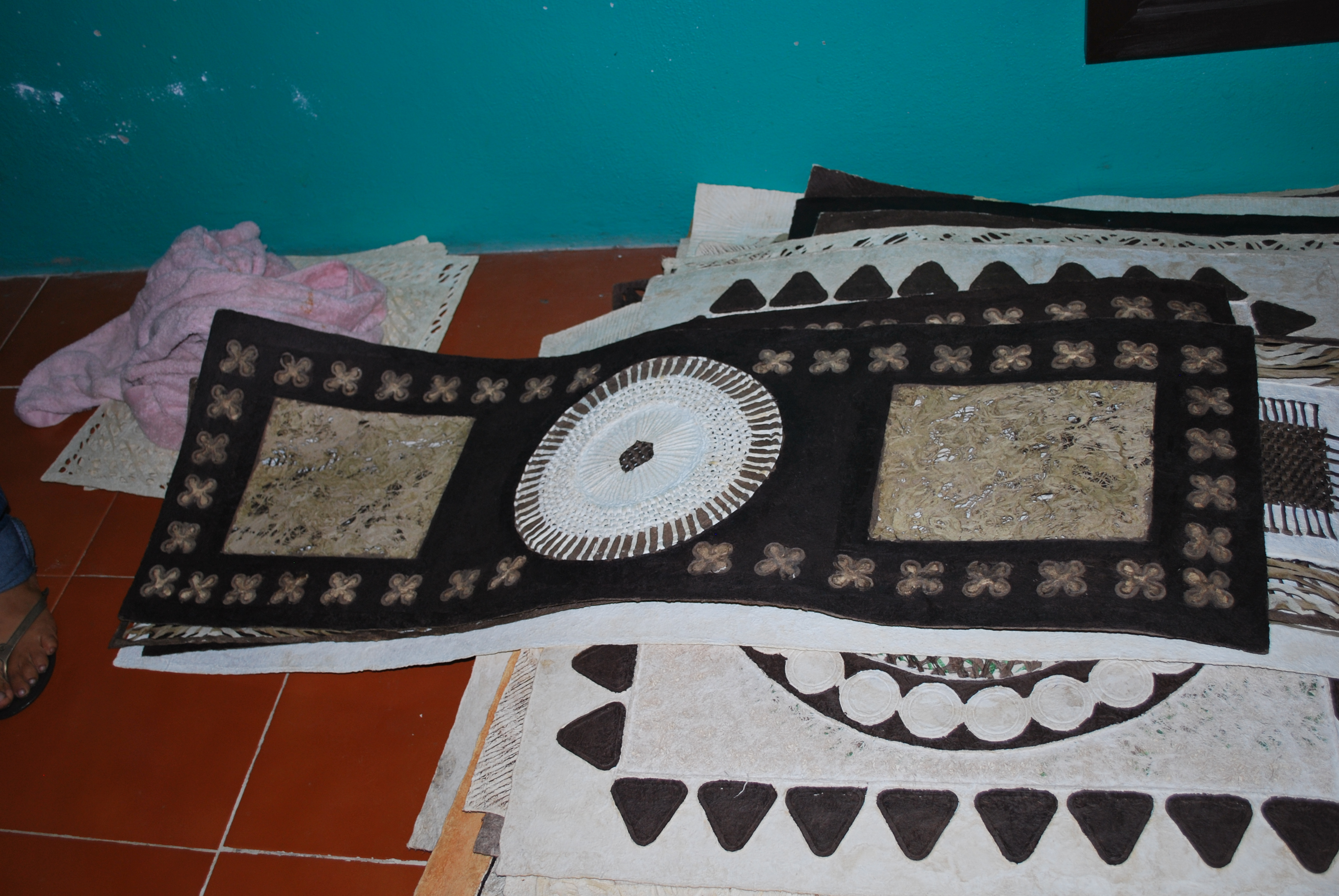 Example of amate paper work at the Gallery Museum in San Pablito, Pahuatlan, Puebla, Mexico